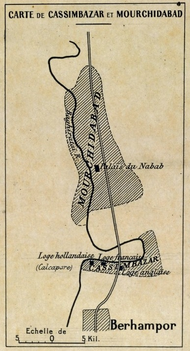 French drawing showing Murshidabad and Cossimbazar in the mid-18th century. The drawing shows the location of the Nawab of Bengal's palace at Murshidabad, as well as the location of the factories ("loge") of the English, French and Dutch East India companies at Cossimbazar, all competing to do business with the powerful nawab.